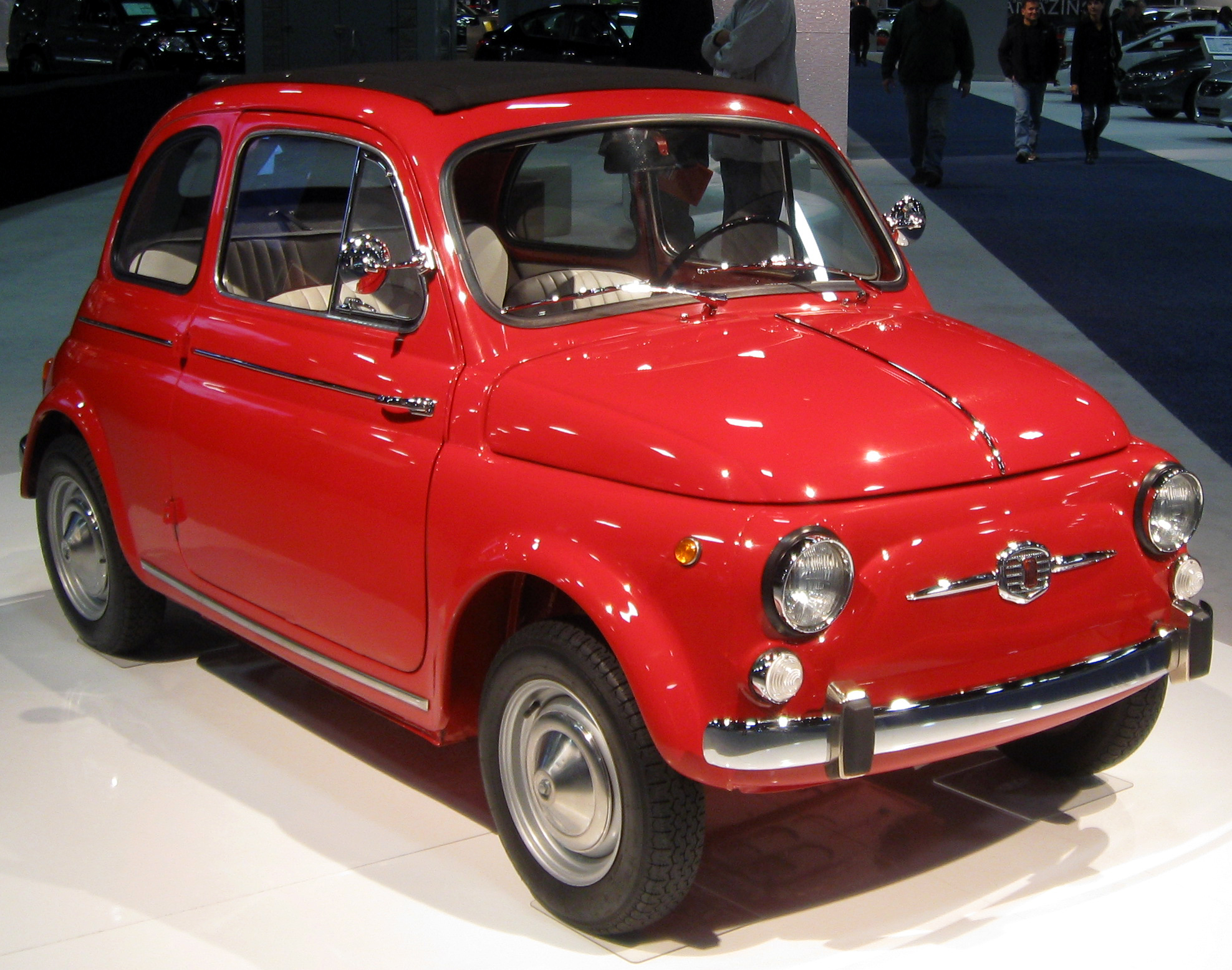 1962 Fiat 500 photographed in Washington, D.C., USA.